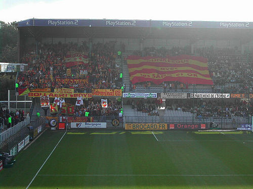 Lens supporters (Auxerre-Lens, 16/10/2004)